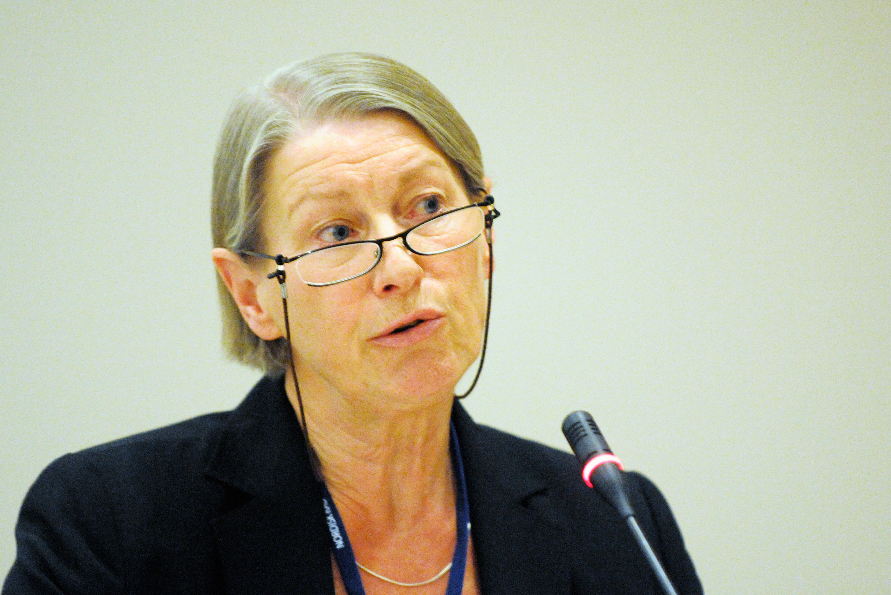 Anna Louise Kirkengen specialist i allmänmedicin talar för Nordiska rådets välfärdsutskott vid deras möte i Stavanger 2008-04-15